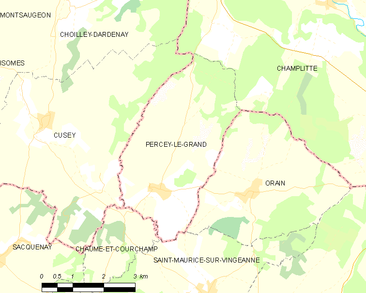 Map of French municipality